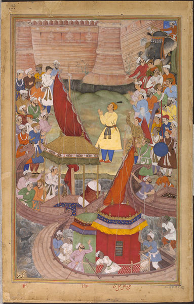 Emperor Akbar celebrates the Mughal conquest of Bengal